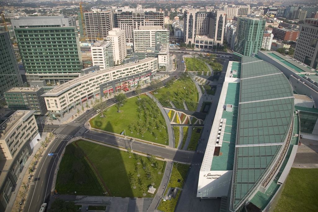 Beijin Finance Street Central Park